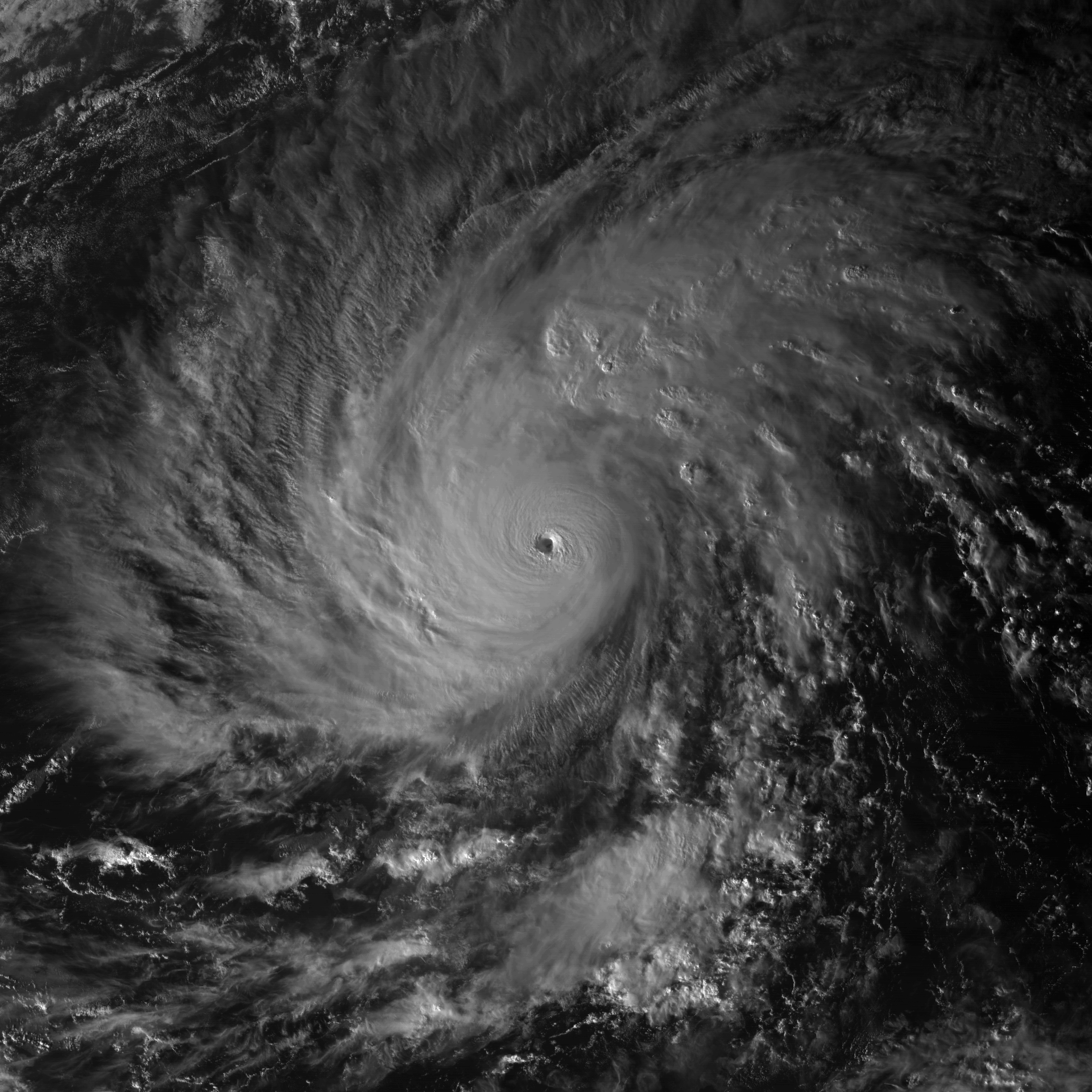 The Japan Meteorological Agency’s MTSAT-1R satellite captured this visible imagery at 07:30 Coordinated Universal Time (15:30 Philippine Standard Time) on November 29, 2006, featuring Typhoon Durian (Reming) at sunset.